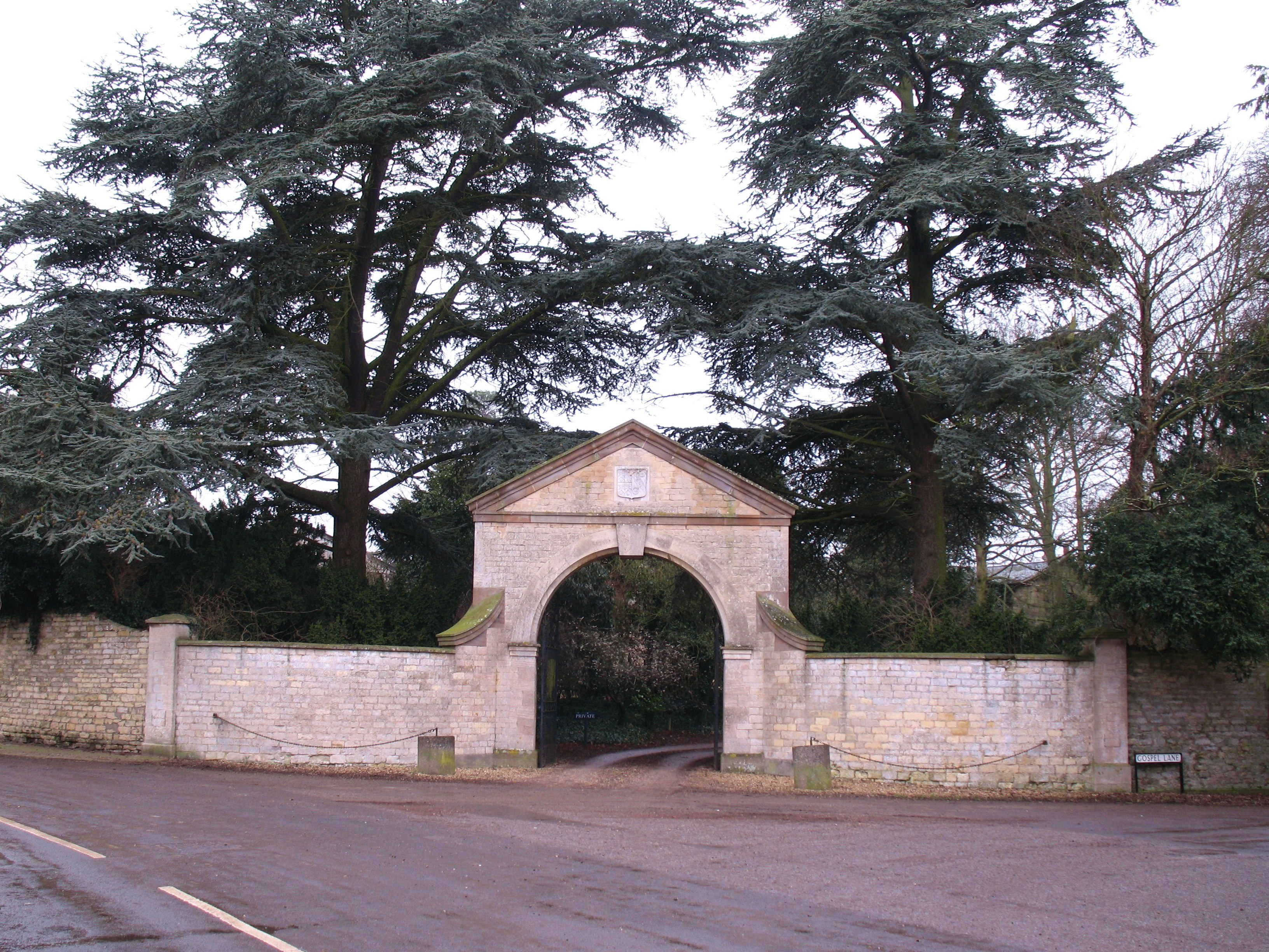 Gateway, Leadenham House. Eighteenth century ornamental arch and gateway at the entrance to Leadenham House.